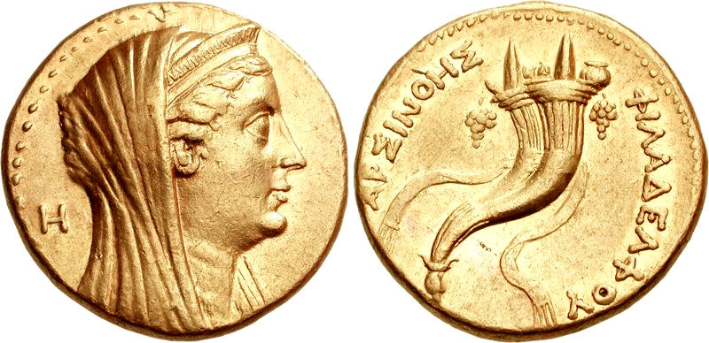 Arsinoe II